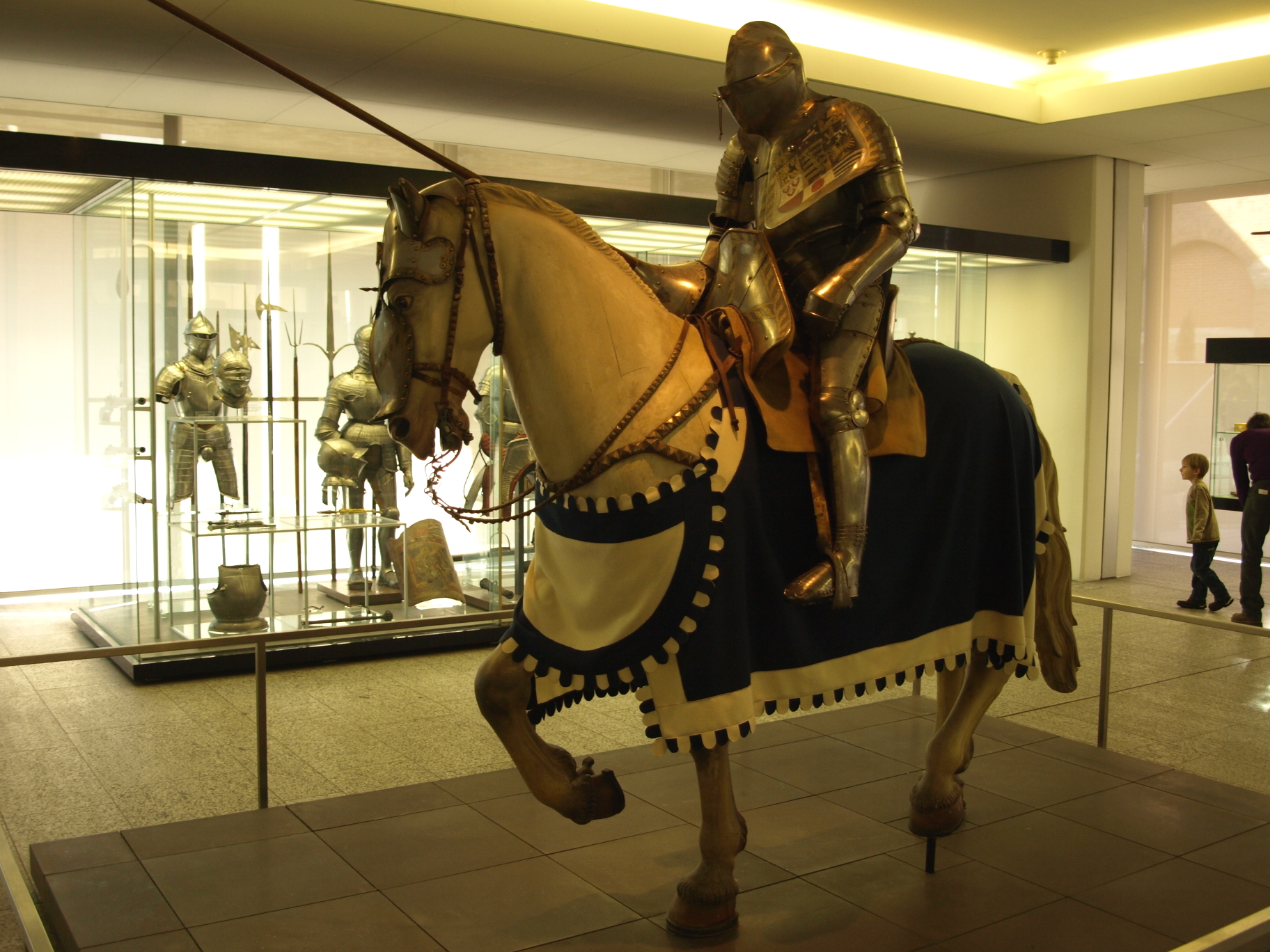 Germanisches Nationalmuseum in Nuremberg, Germany. Room for weapons and hunting gear (Room 47).